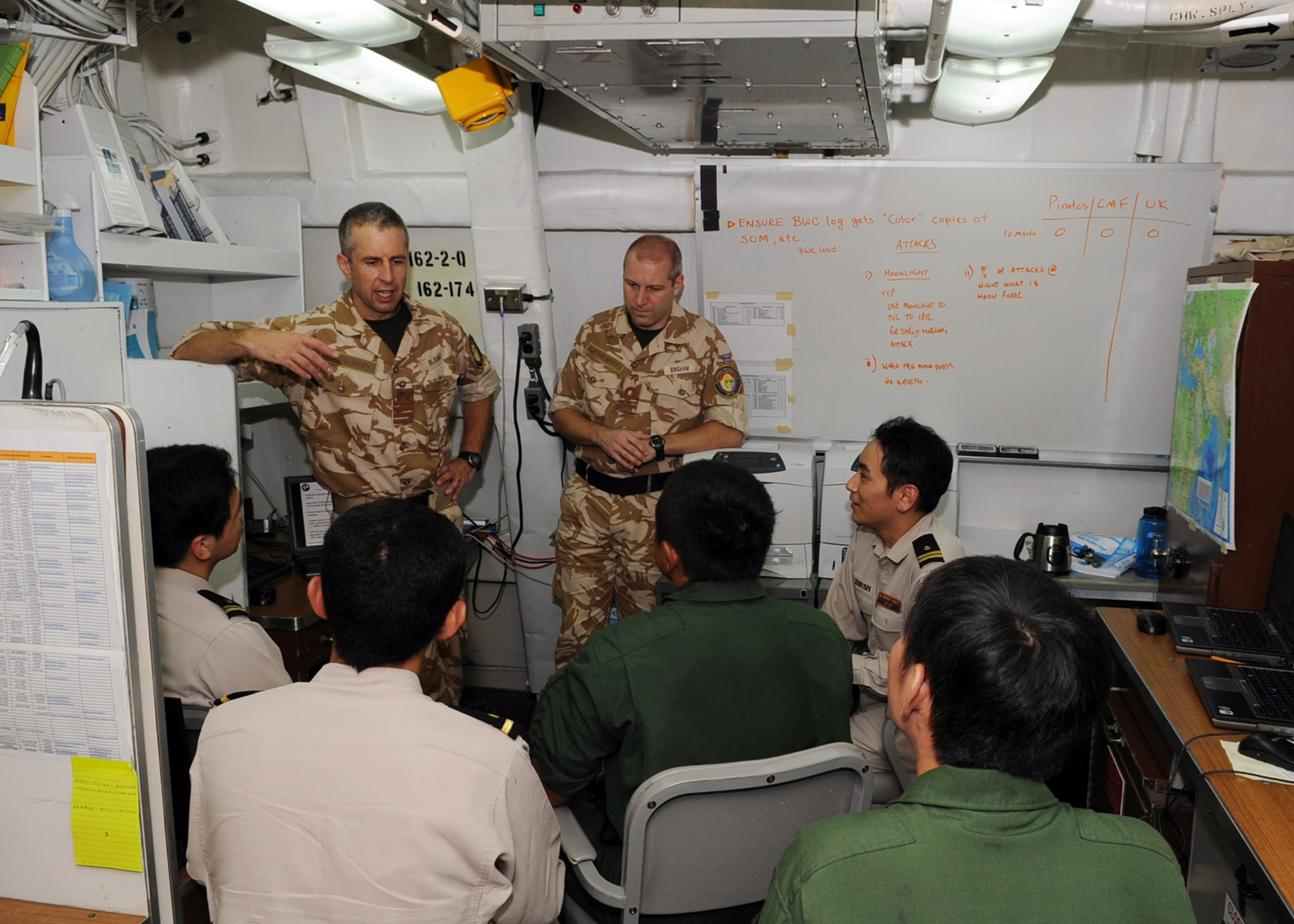 GULF OF ADEN (Sept. 5, 2009) Royal Navy Capt. Keith Blount, chief of staff of Combined Task Force 151, addresses officers from the Japan Maritime Self-Defense Force destroyer JS Harusame (DD 102) aboard the guided-missile cruiser USS Anzio (CG 68). Anzio is the flagship for CTF 151, a multinational task force established to conduct counter-piracy operations off the coast of Somalia. (U.S. Navy photo by Mass Communication Specialist 2nd Class Brian K. Fromal/Released)